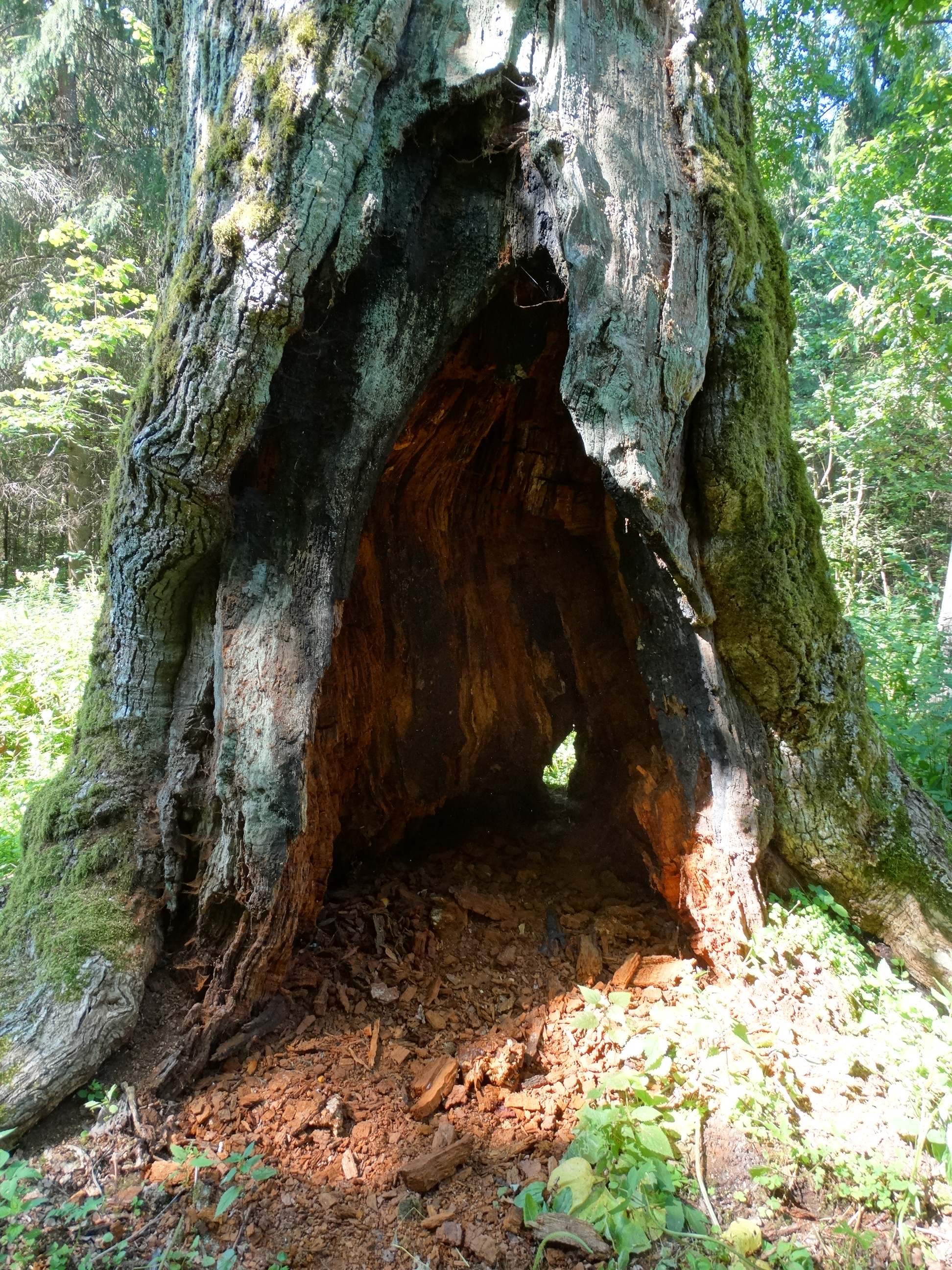 Alkūnai Oak, Molėtai district, Lithuania